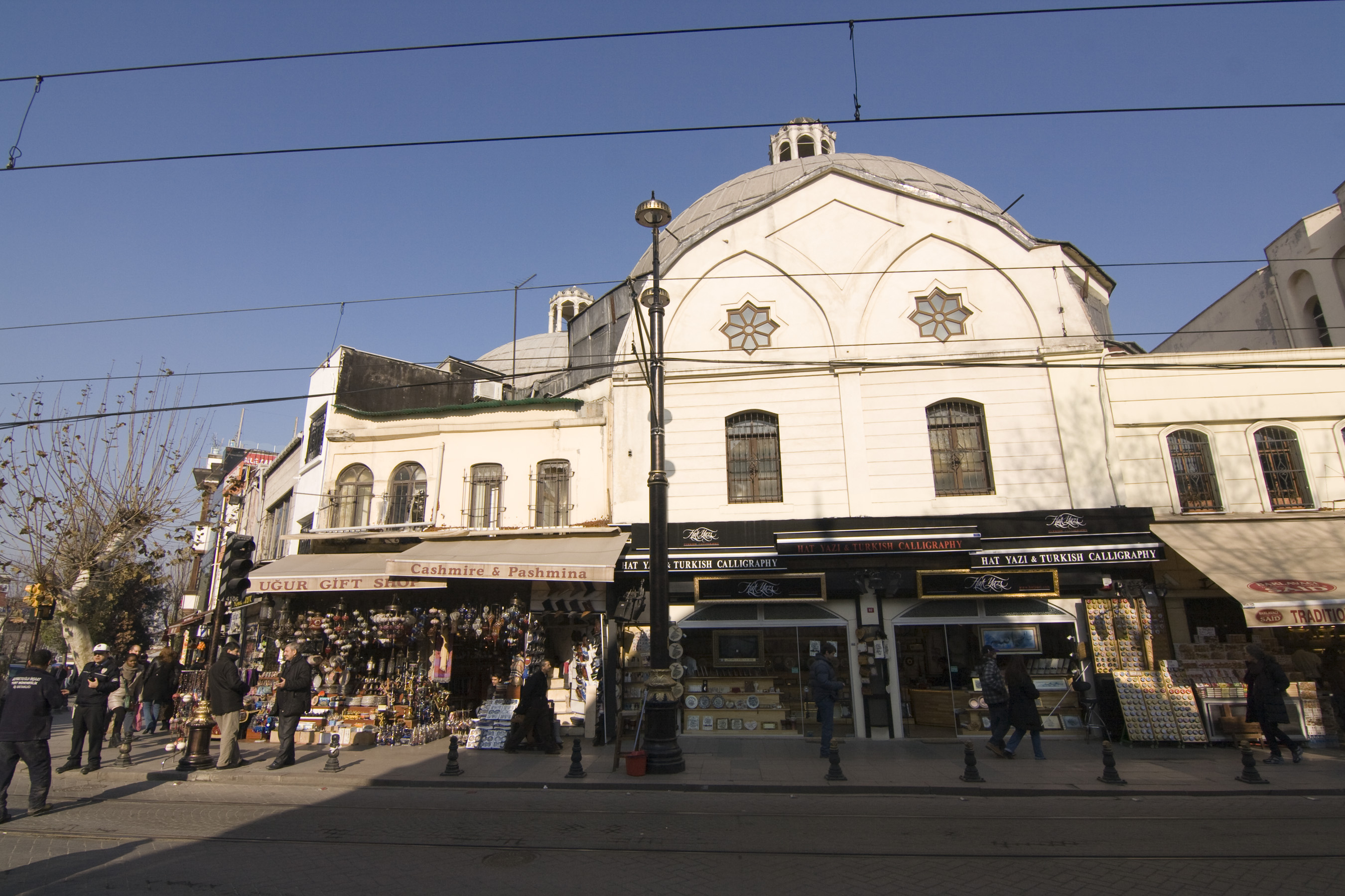 Istanbul